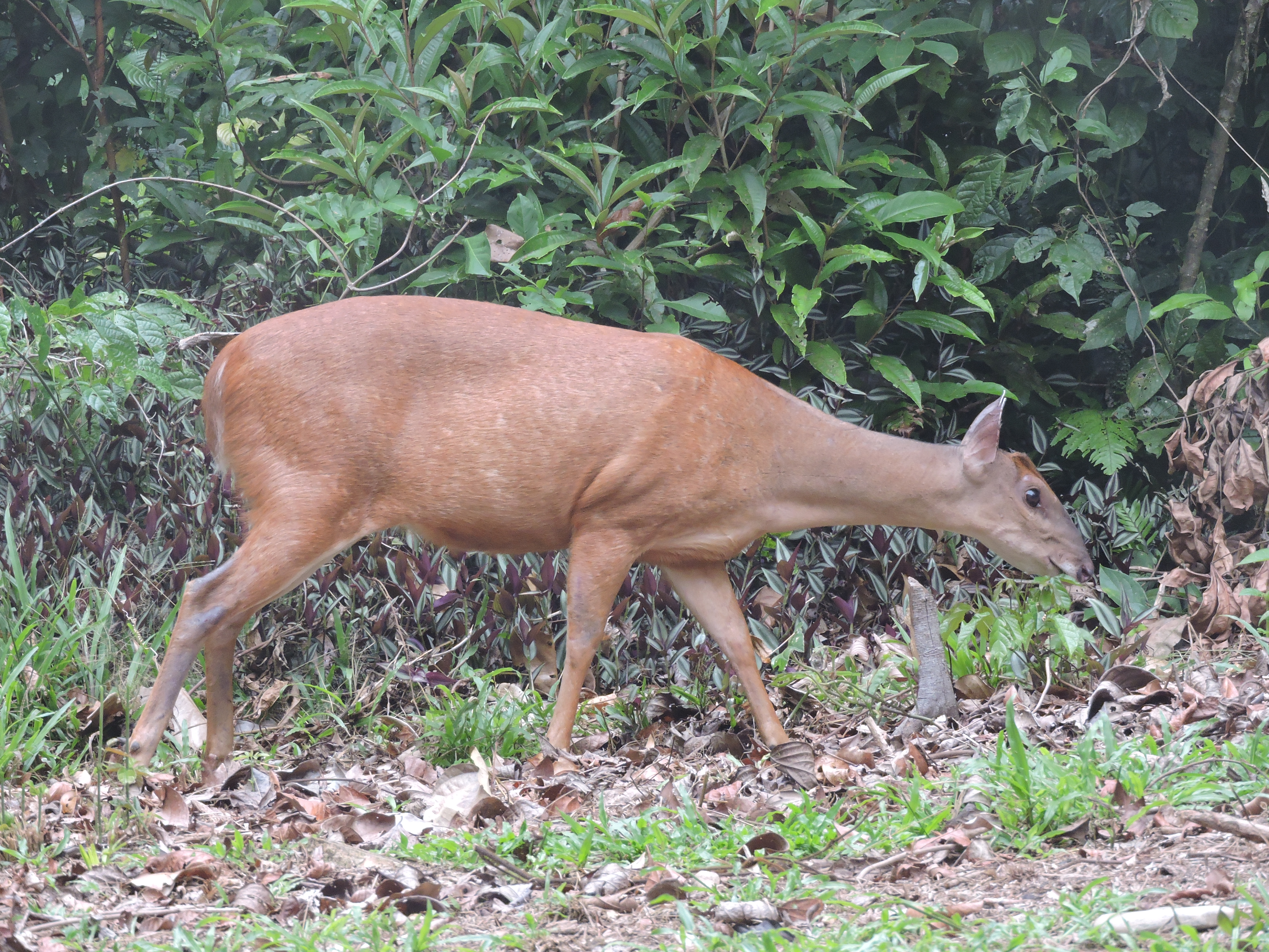 Red brocket (Mazama americana)